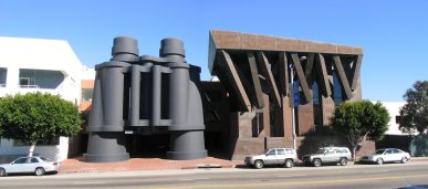 Chiat/Day Building, Frank Gehry architect with Claes Oldenburg and Coosje van Bruggen, Venice, California, January 2005.